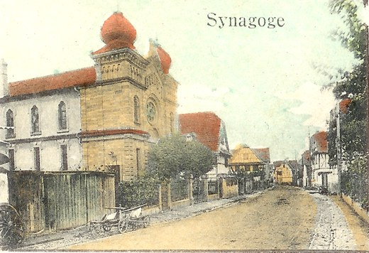 Synagogue of Wolfisheim in Bas-Rhin (Alsace - France), at the beginning of the XXth century.